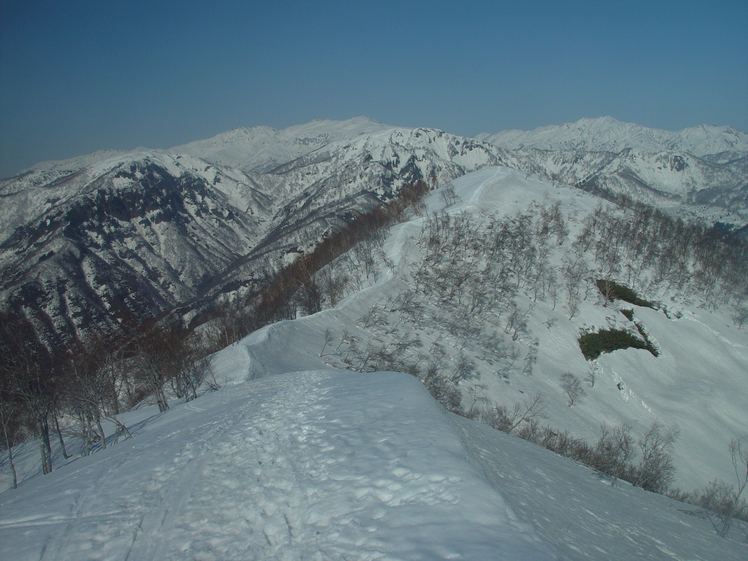 Ryohaku Mountain seen from Mount Hōonji, in Ryōhaku Mountains, Japan.